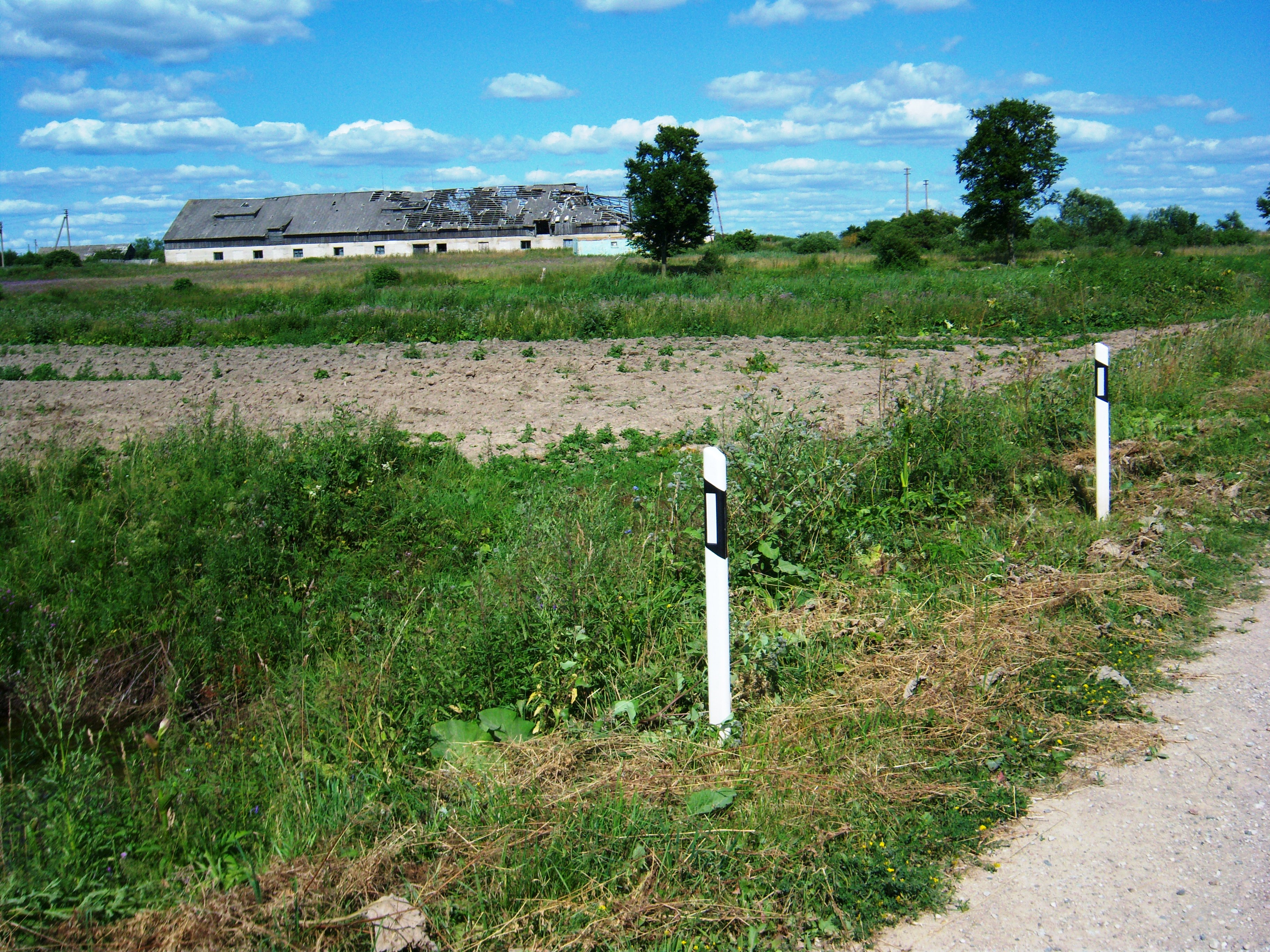 Pagirmuonys, Prienai District, Lithuania